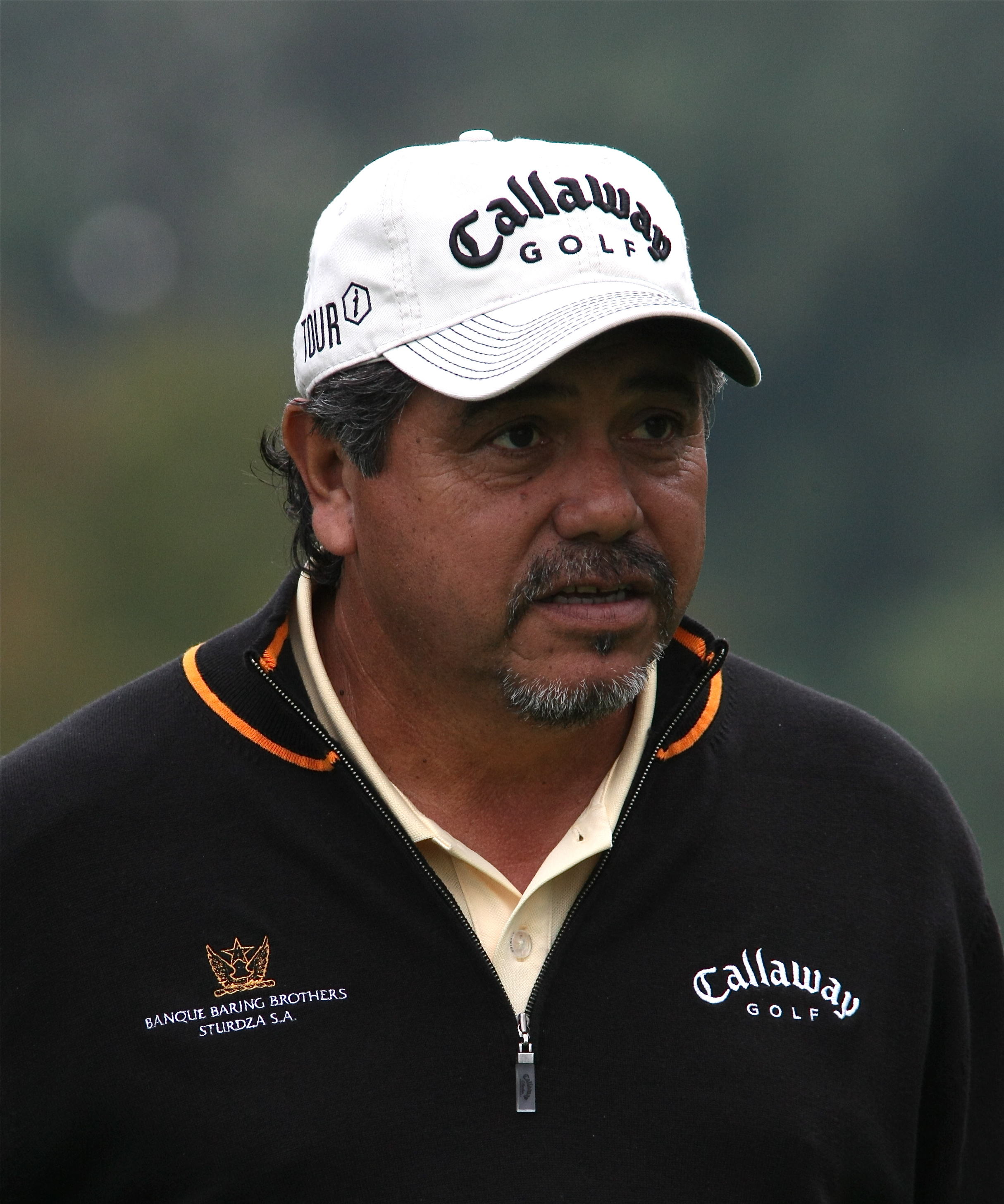 An image of golfer Eduardo Romero on the senior circuit in 2008.